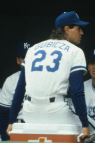 Kansas City Royals player Mark Gubicza in 1991.